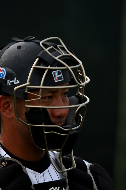 Naoki Matoba, catcher of the Chiba Lotte Marines.